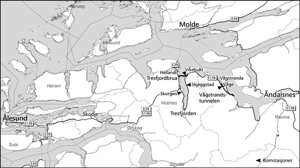 Overview of construction work on E136 (Tresfjord bridge and Vågstrand tunnel), Parliament documents